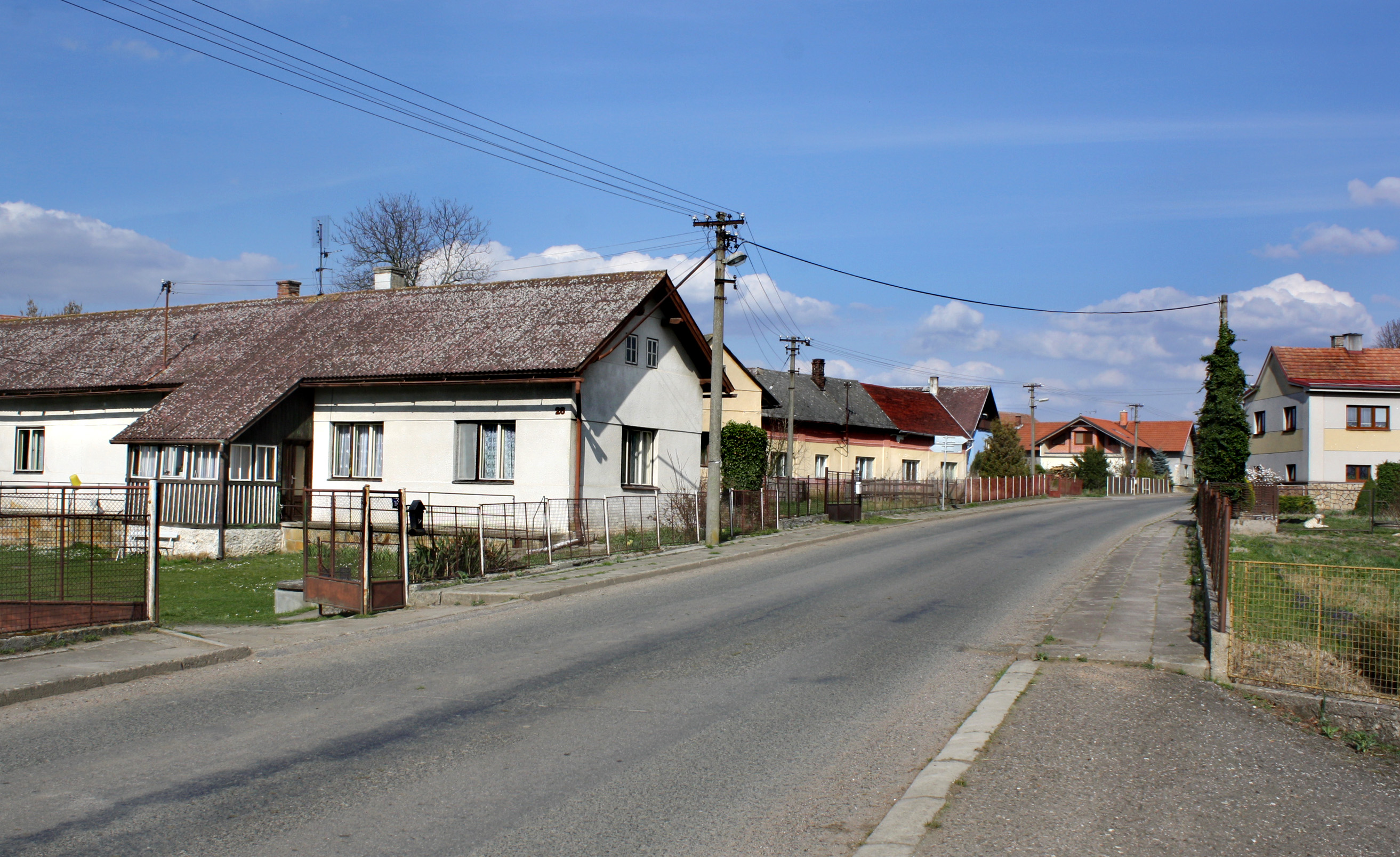 Bus stop in Cholenice village, Czech Republic